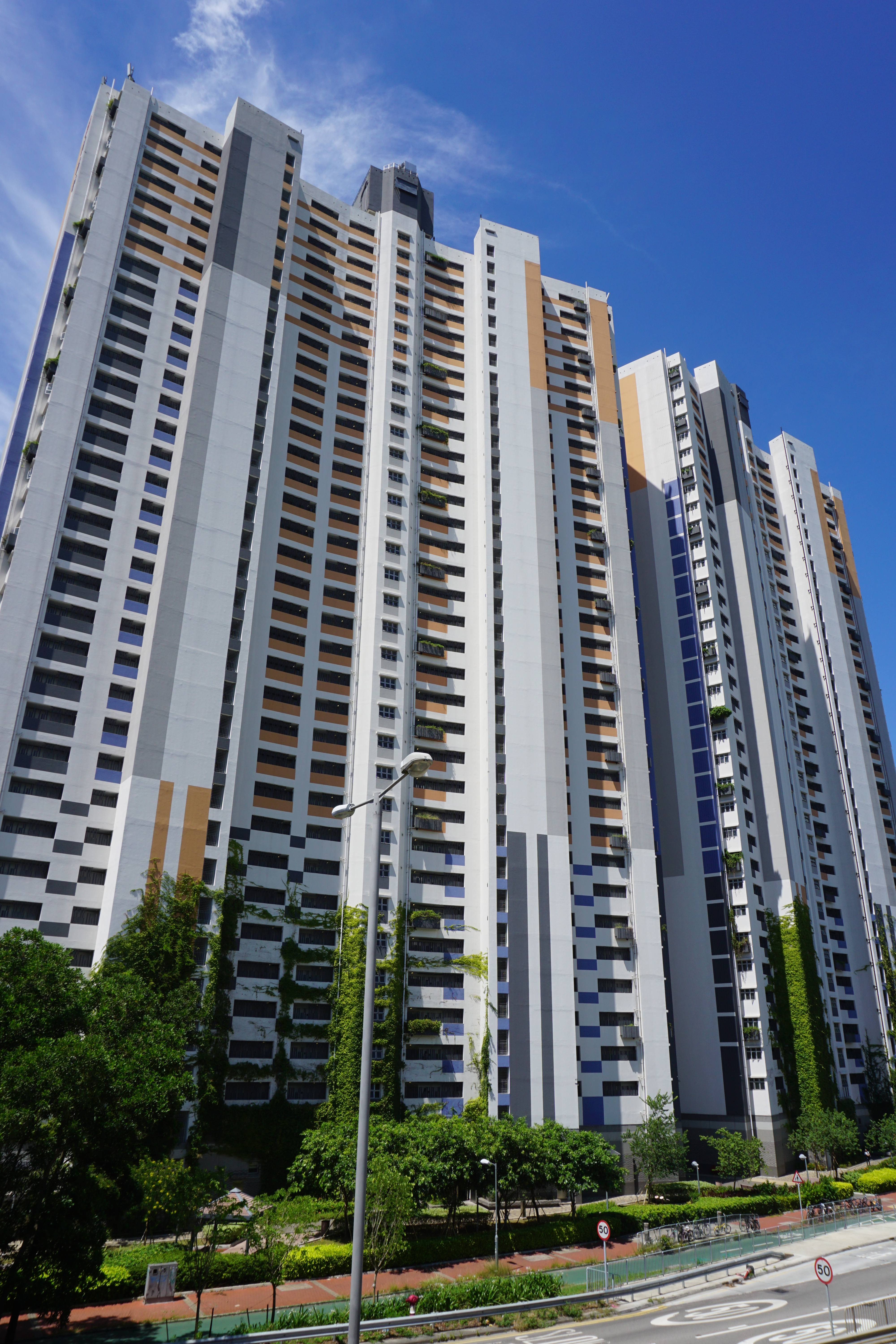 Lung Yat Estate in Tuen Mun, Hong Kong.